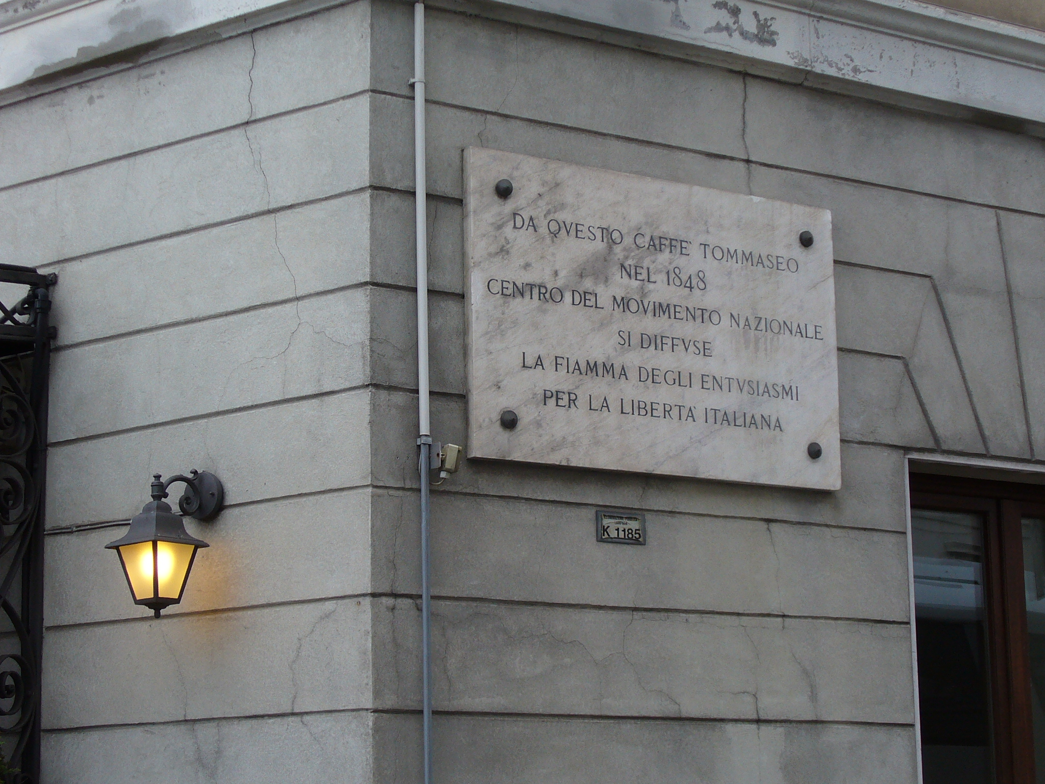 Plaque commemorating the italian national liberty movement of 1848 at the Café Tommaseo (Triest)